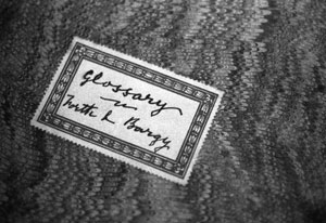 Pooles cover of the glossary